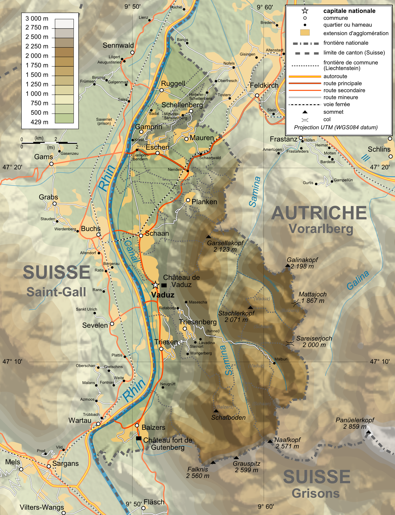 Topographic map in French of Liechtenstein